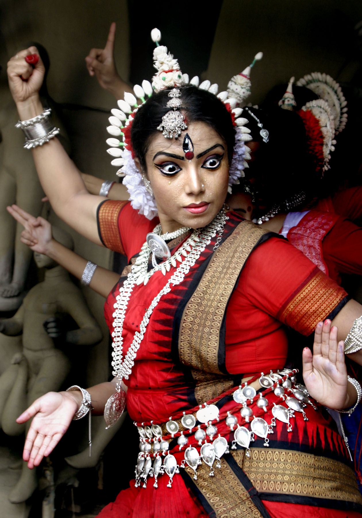 Odissi Dancer Sanchita Bhattcharjee and her troup practicing for wellcome the upcoming Durga Festival at Heritage house Sovabazar Rajbari in Calcutta on Saturday 17 September2005.Hindu Goddess Durga is the slayer of evil demon king, Mahishasura. She is said to be formed by the joint divine energies of the major Gods in Hindu religion. The ten armed goddess is worshipped with a lot of fervor in Bengal. Every autumn, Bengalis all over the world celebrate her festival which not only stands for the victory of good over evil, but is also a celebration of woman power. The festival this year starts on October EPA /PIYAL ADHIKARY